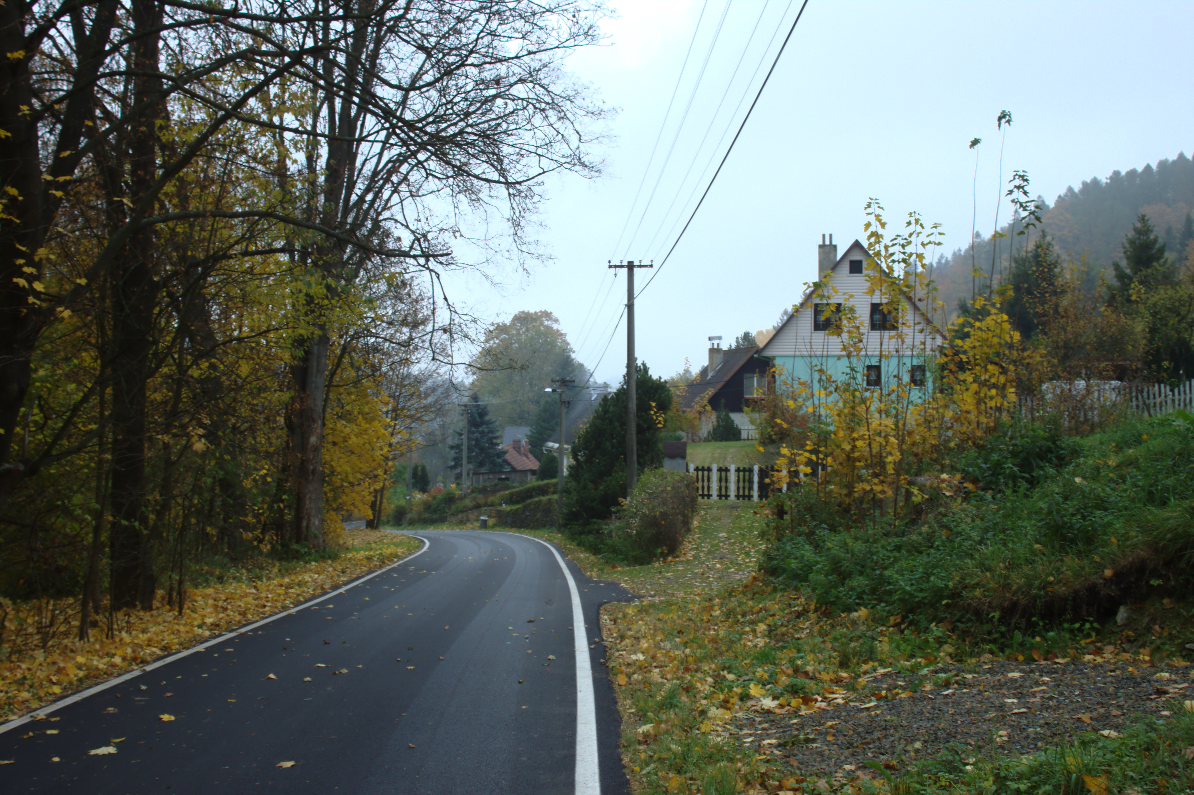 Recreational area in Staré Purkratice, Moravian-Silesian Region, CZ